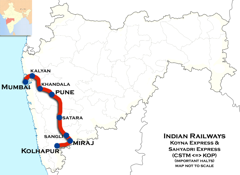 Koyna Express and Sahyadri Express (Mumbai - Kolhapur) Route map